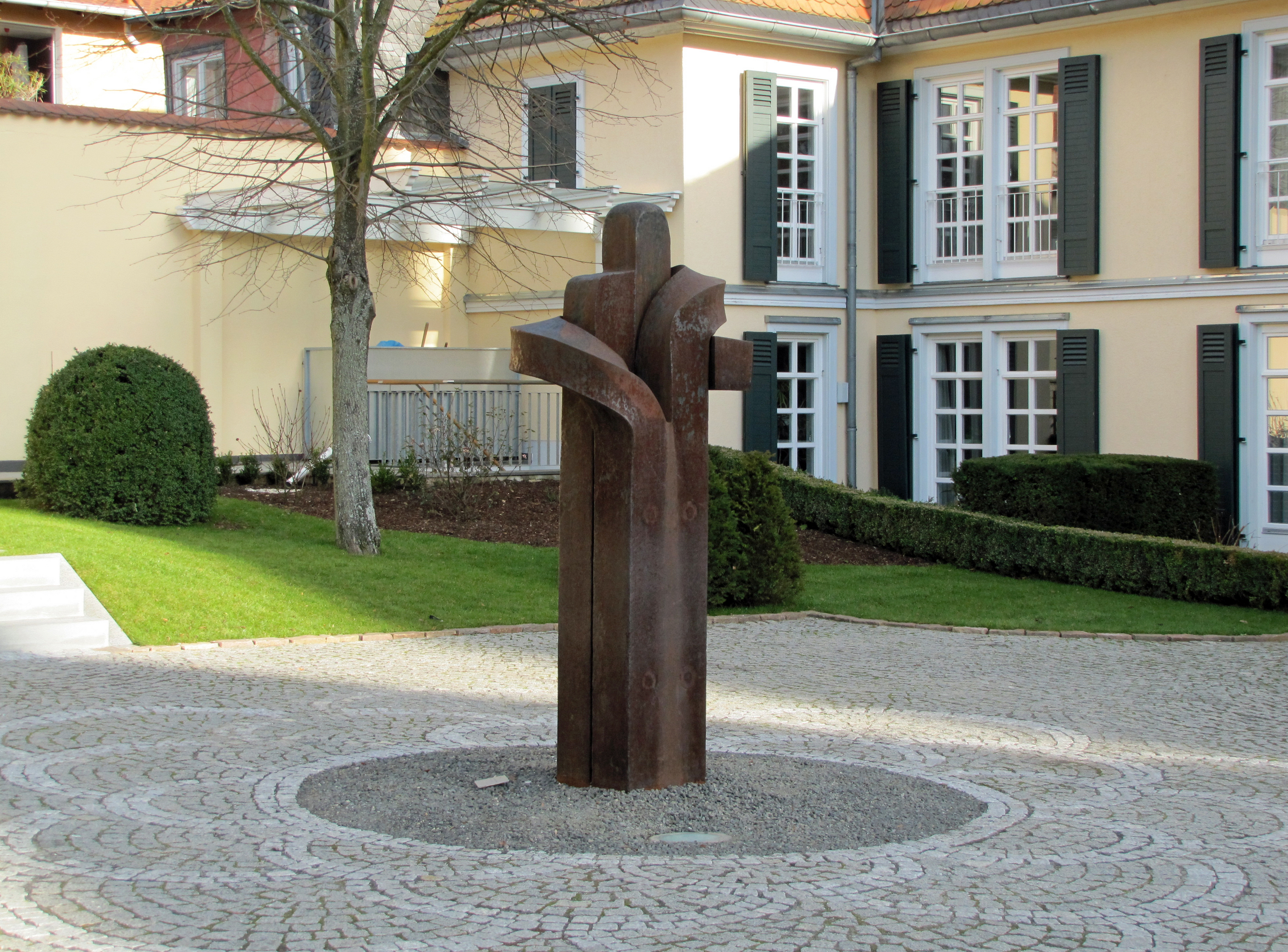 Eduardo Chillida, "Besarkada X", 1996, courtyard of "Sinclair-Haus", Bad Homburg, Germany.